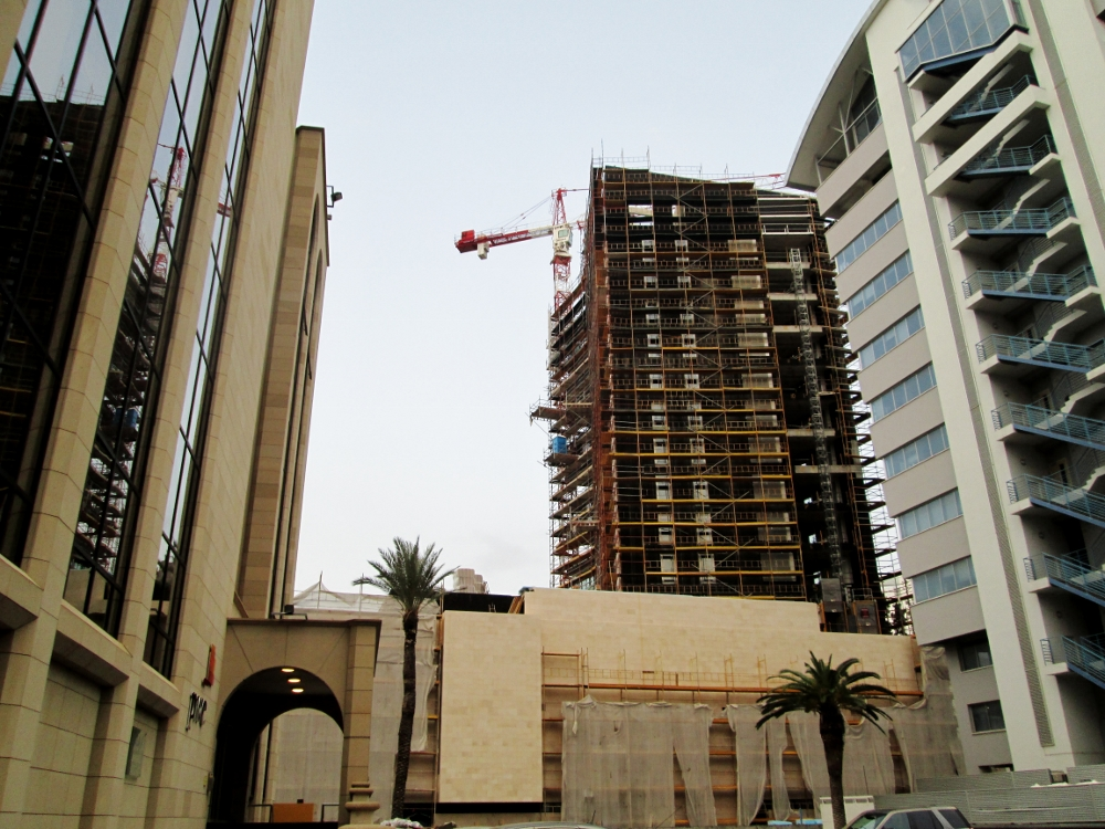 Financial destrict skyscrapers Nicosia Republic of Cyprus